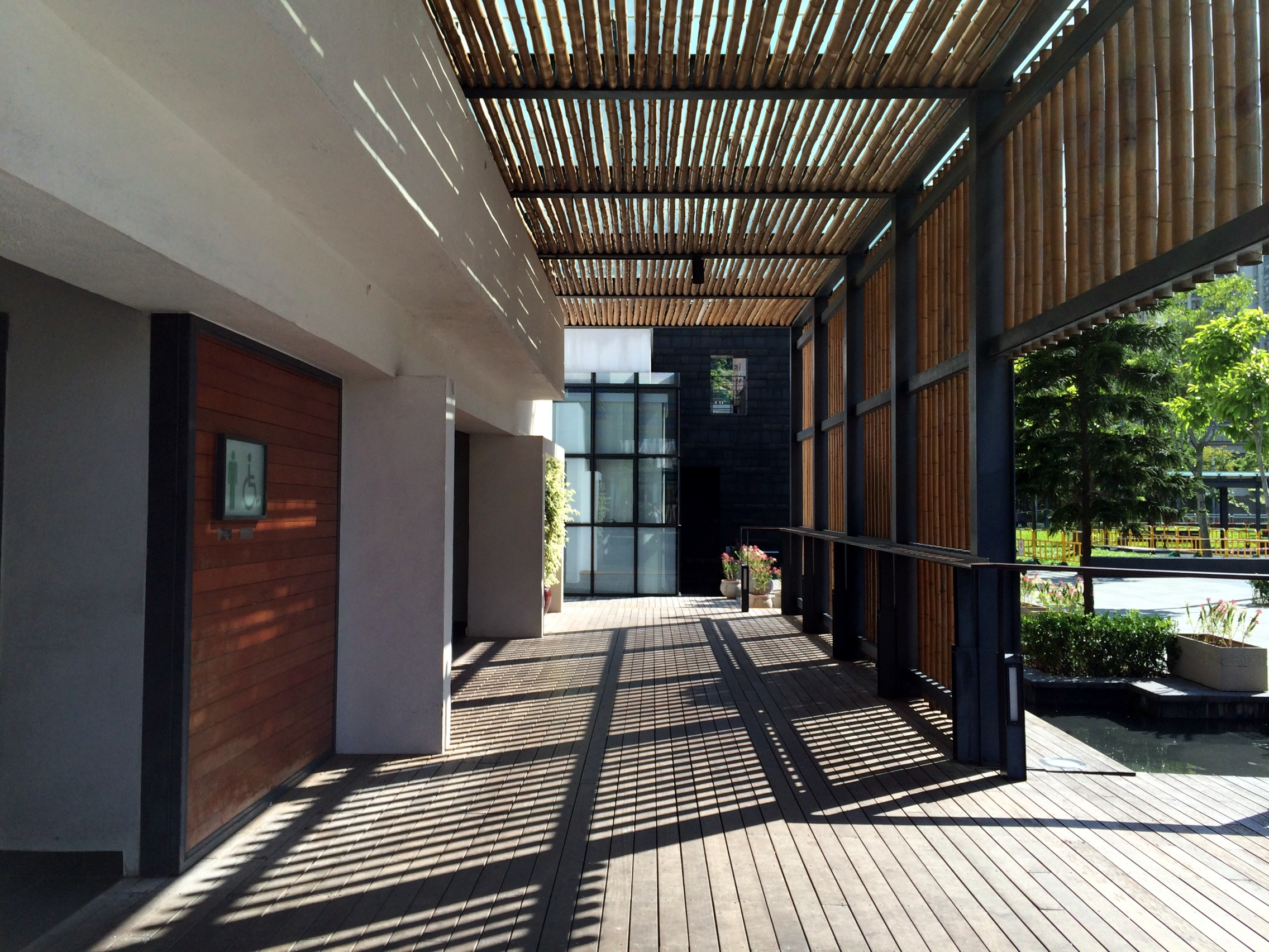 Aldrich Bay Park Washroom outside